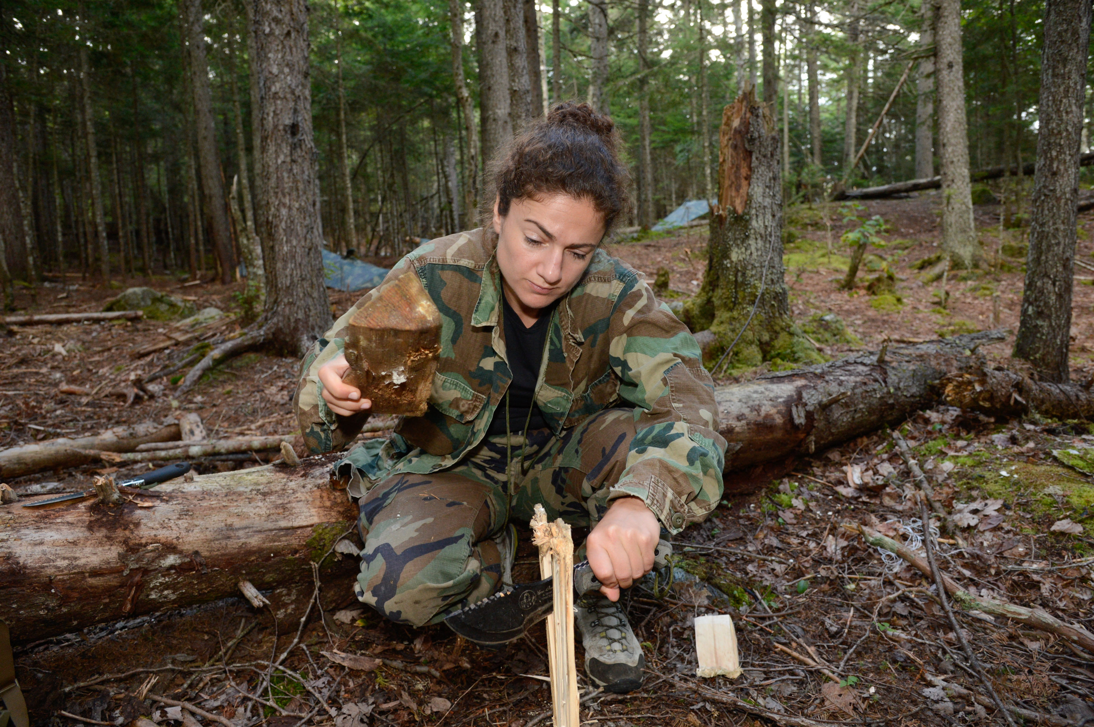 Jessica U. Meir works with survival gear that will help sustain her for three days in the wilderness. As the first phase of their extensive training program along the way to become full-fledged astronauts, eight new candidates spent three days in the wild participating in their land survival training, near Rangeley, Maine.